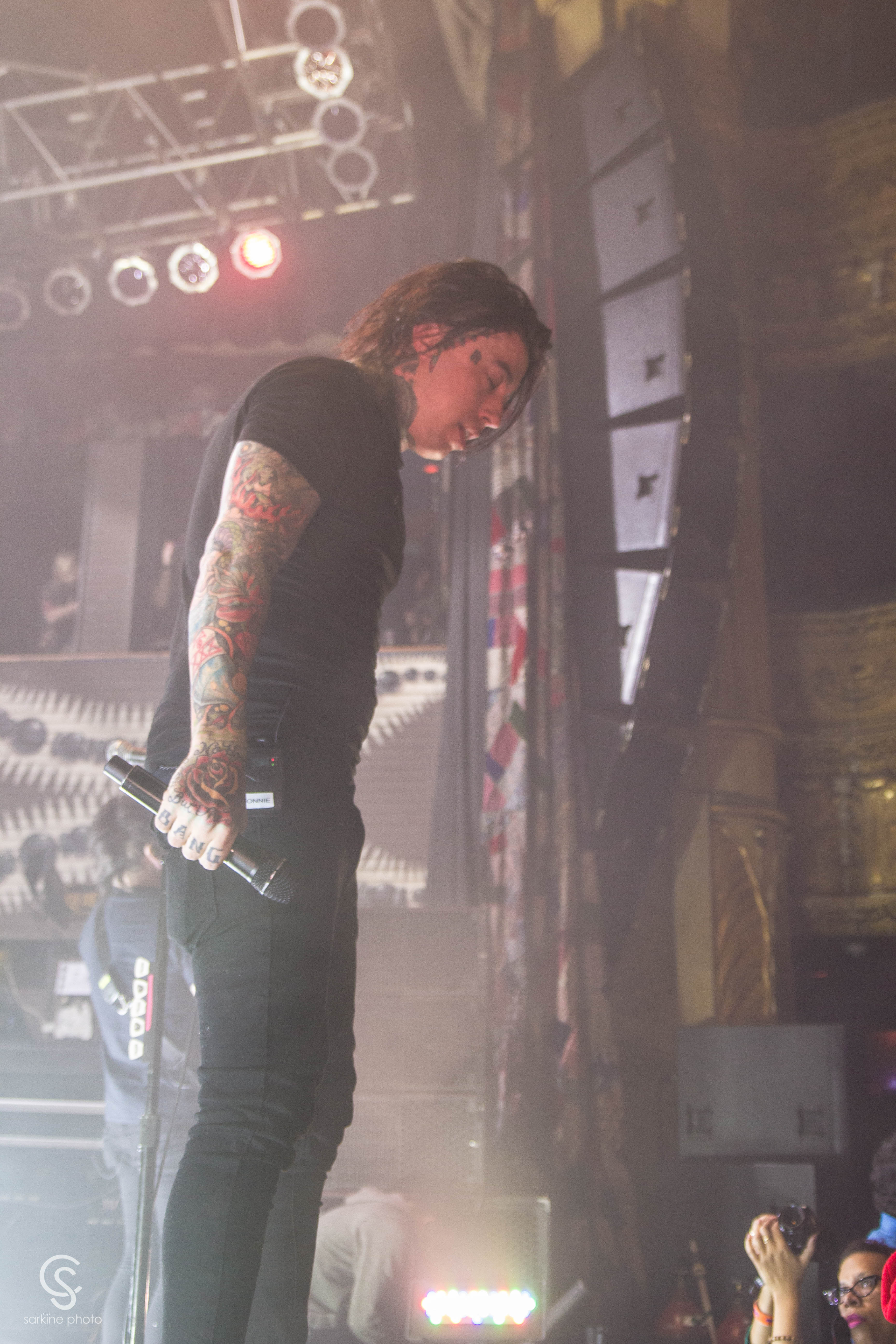 Ronnie Radke in Chicago 2015